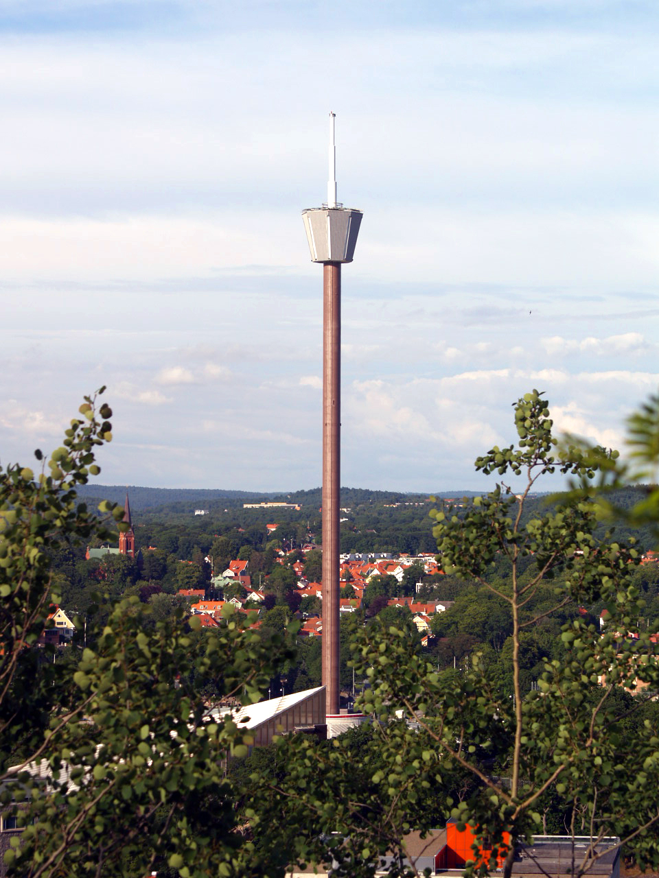 Liseberg tower in Gothenburg, Sweden, is reconstructed to the new Atmosfear ride.